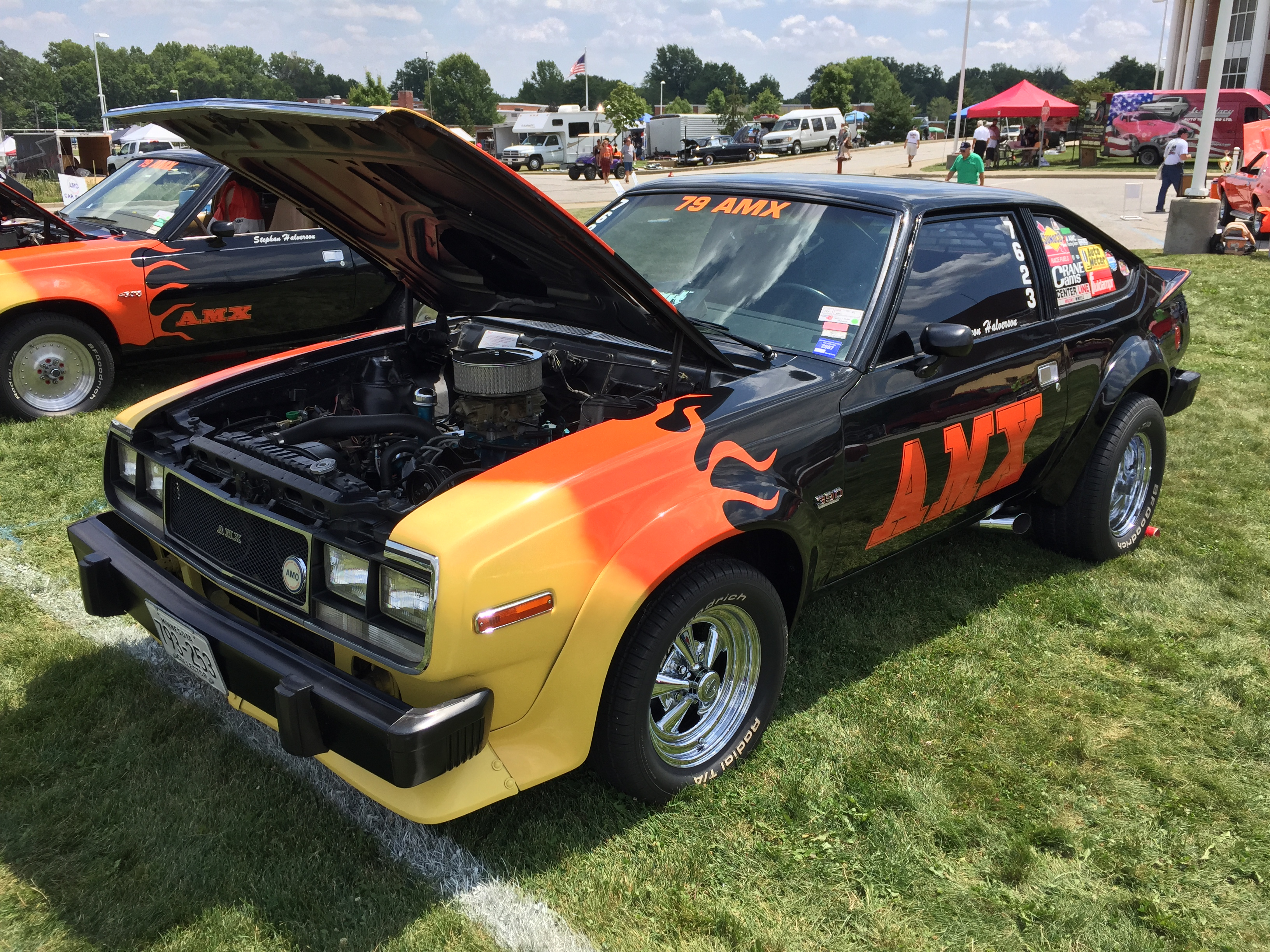 1979 AMC Spirit AMX a subcompact lift back built by American Motors Corporation (AMC). This car has been updated with AMC's 390 cu in (6.4 L) 4-bb V8 engine with 4-speed manual transmission. It has been customized for racing and is named “Black Plague”.... The car's black exterior features flame paint work starting with the grille. The AMX was the name of the 1968 to 1970 two-seater GT-type muscle cars built by AMC. It was used again on the top performance models in the AMC Spirit subcompact line for the 1979 and 1980 model years. Picture taken during the during the American Motors Owners Association (AMO) annual convention that was held July 2015 near Cleveland, Ohio.